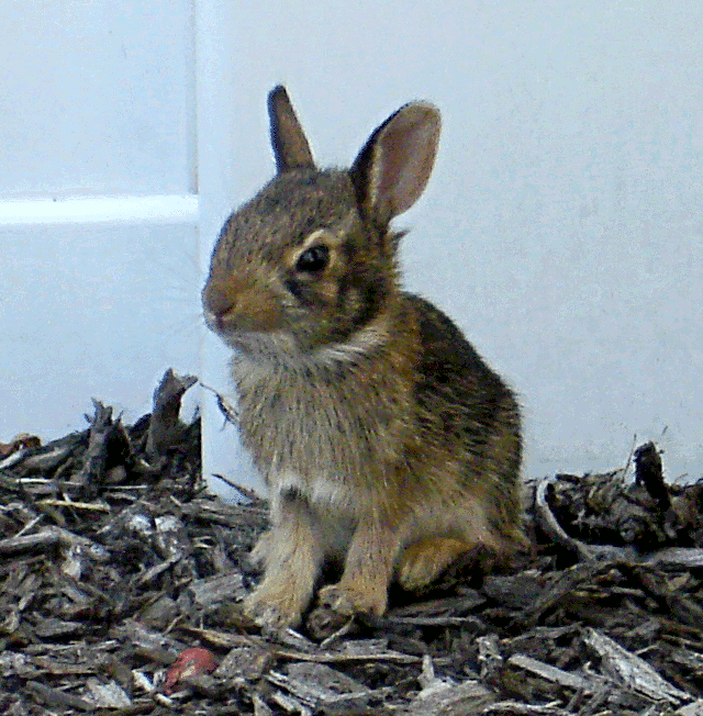 A one week old baby eastern cottontail rabbit (Sylvilagus floridanus) in Matawan, New Jersey.